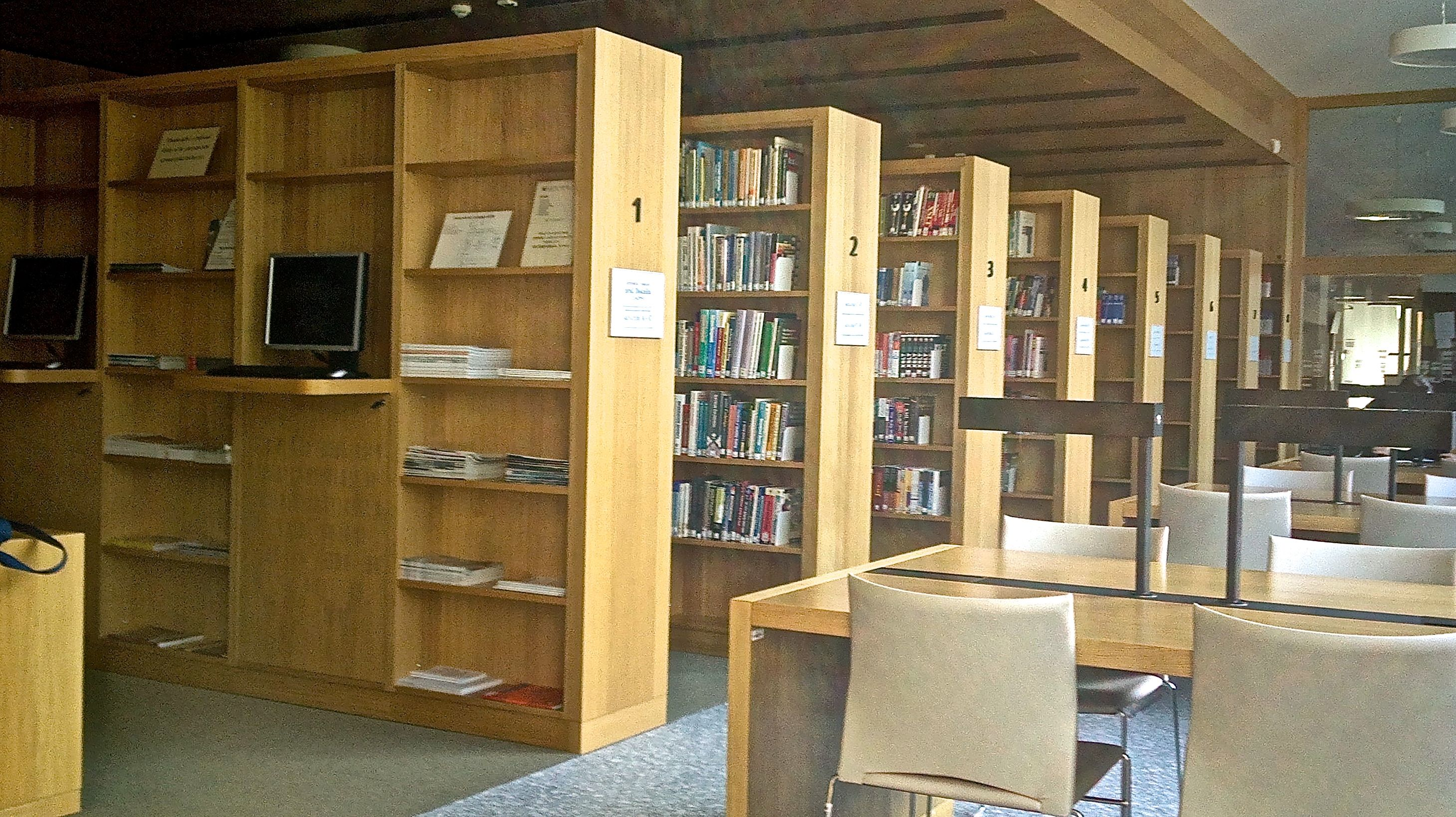 Faculty of Informatics, inside the library